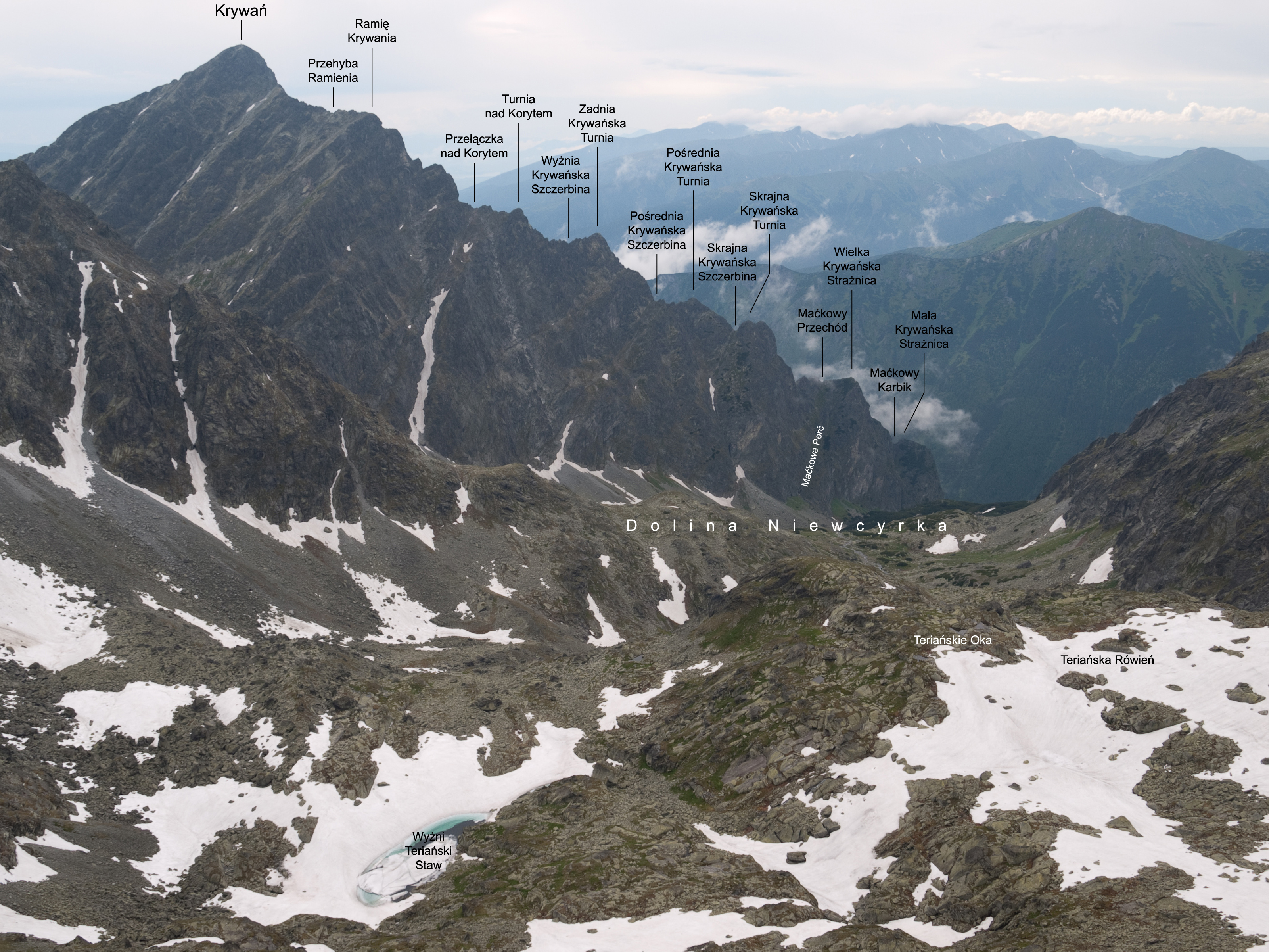 Krivánsky hrebeň – view from Furkotský štít (Polish captions).